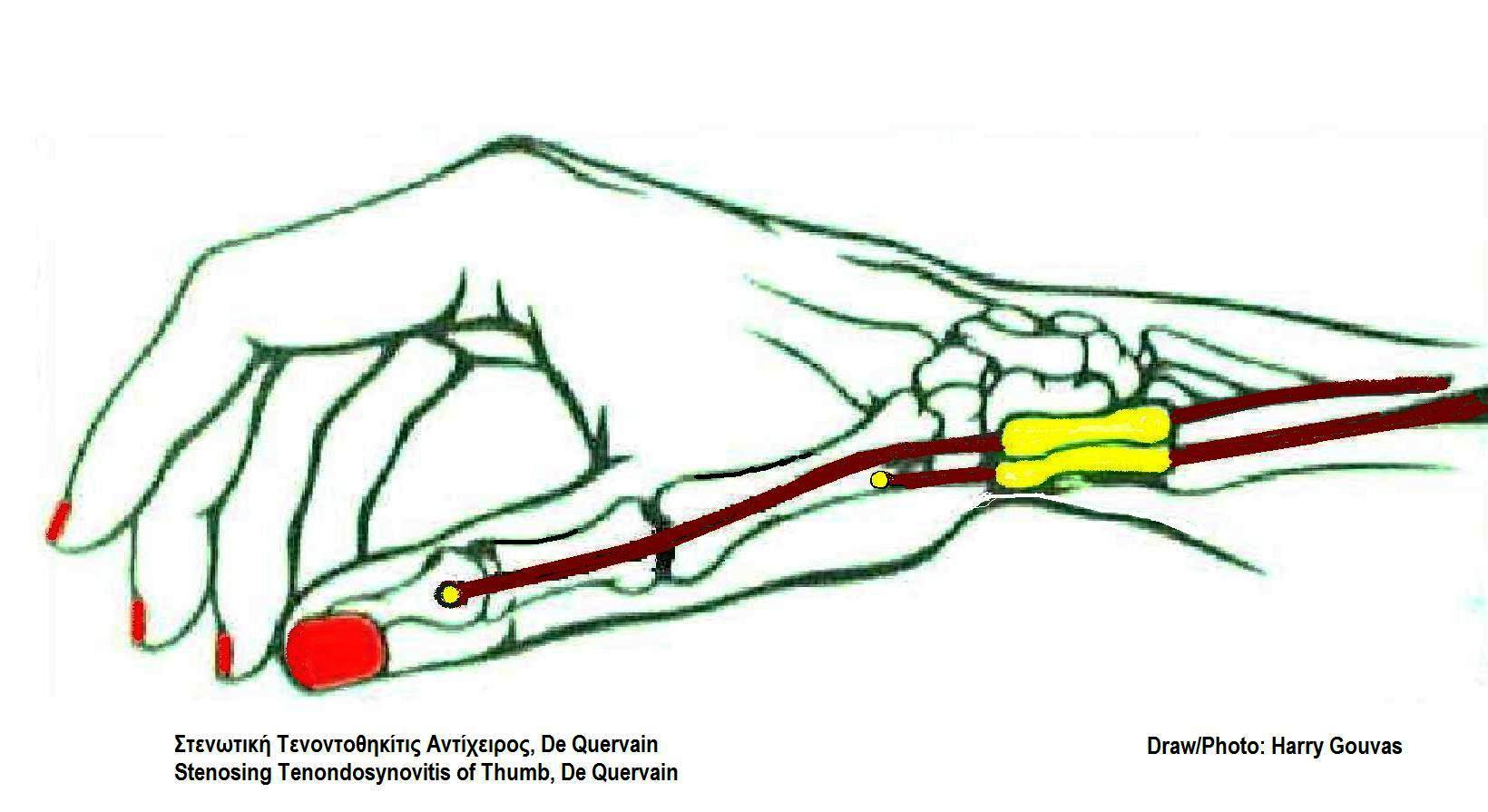 Stenosing tendondosynvitis of thumb De Quervain